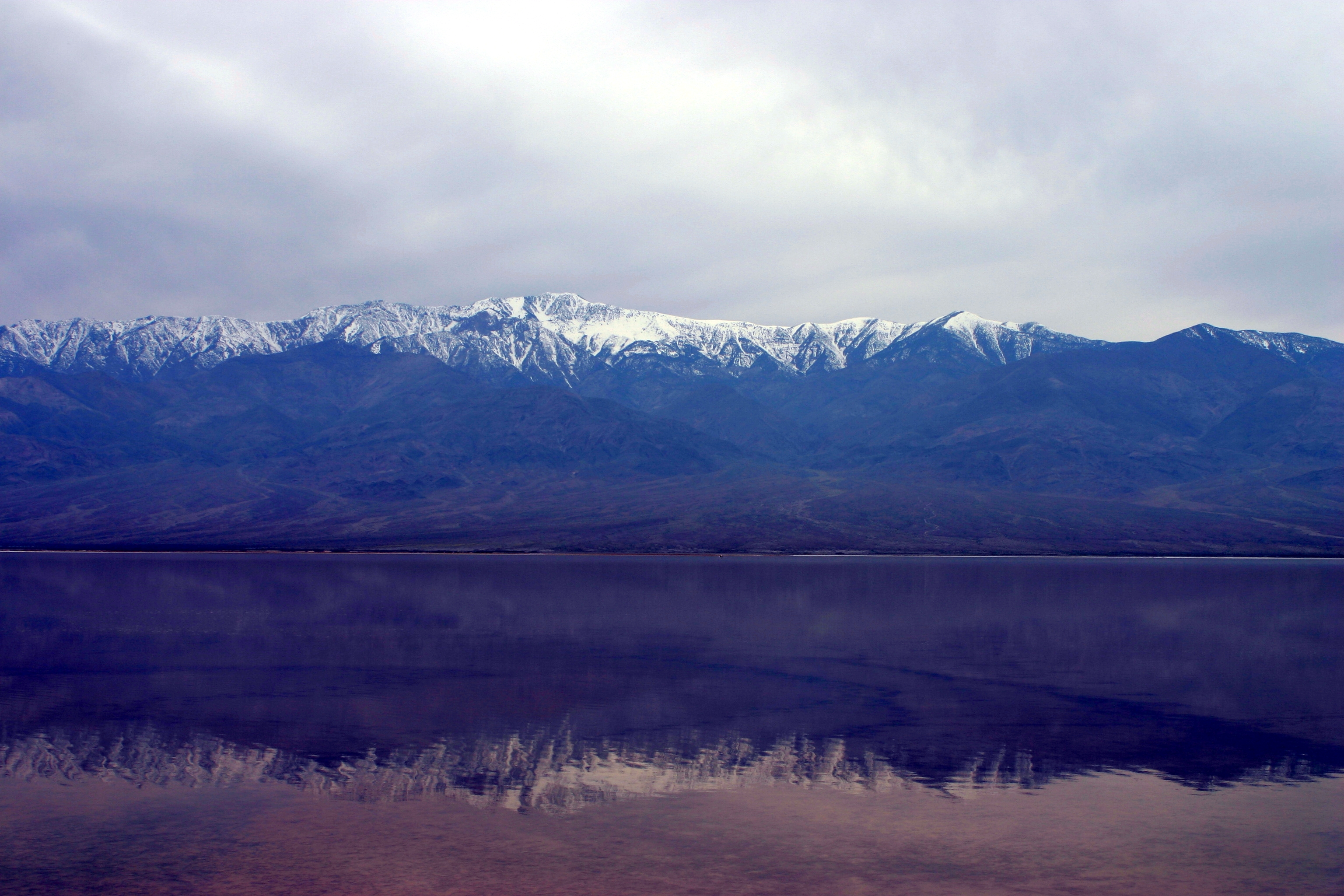 Death Valley after winter rains does not look as a xeric desert for few weeks. The Panamint Range is the backdrop, in Death Valley National Park, California]